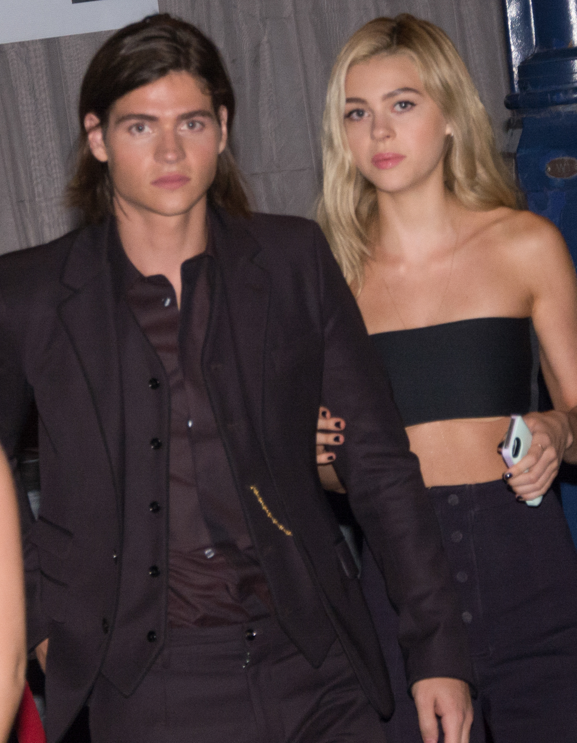 Acting sibilings Will Peltz and and Nicola Peltz arriving for the Hollywood Foreign Press Association & InStyle's 2014 TIFF Celebration